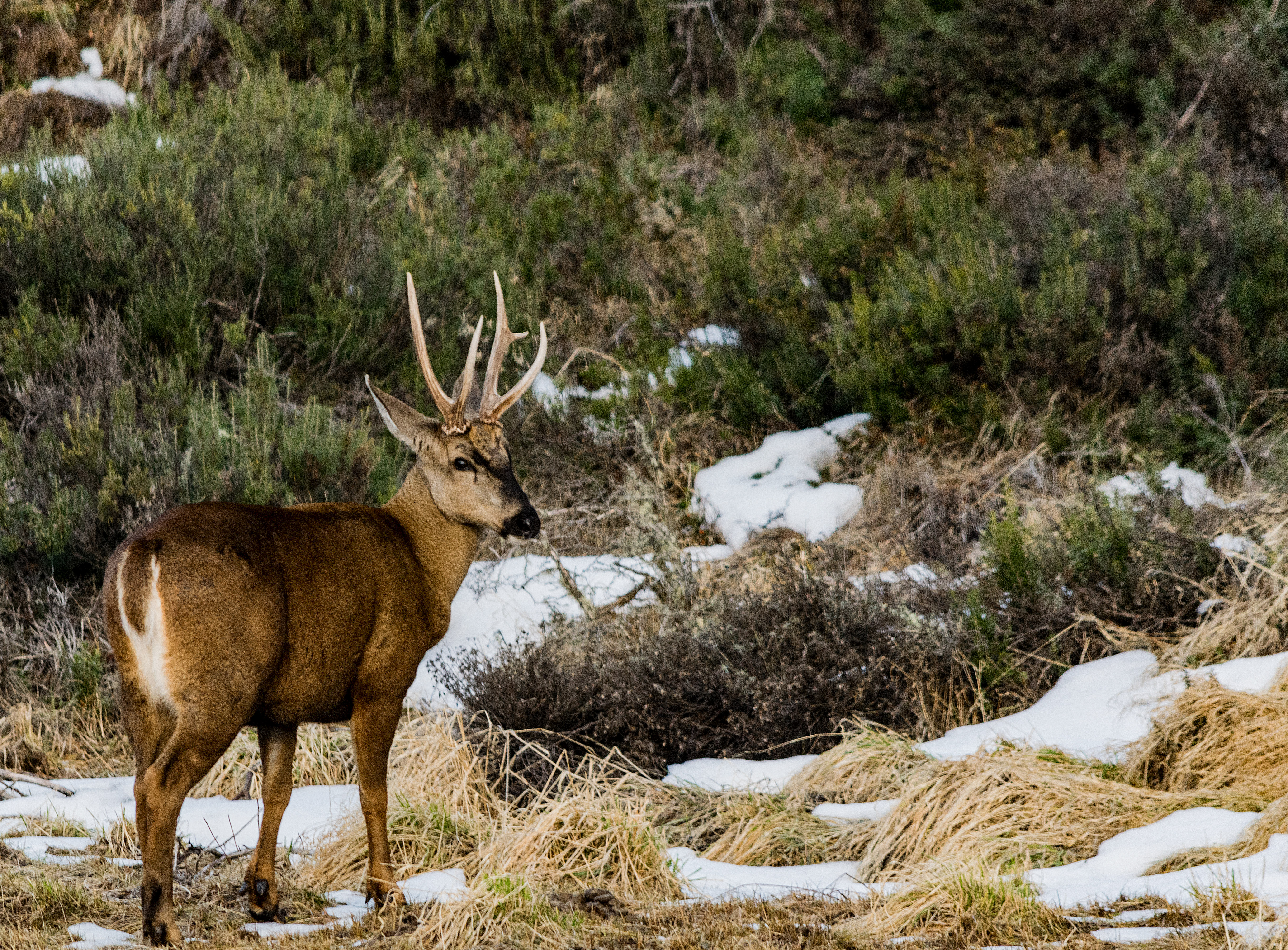 Male South Andean Deer (Hippocamelus bisulcus) at Cerro Castillo national reserve, Aysén region, Chile. An Abscess can be seen at the base of the neck, due to an illness produced by the bacteria Corynebacterium pseudotuberculosis.